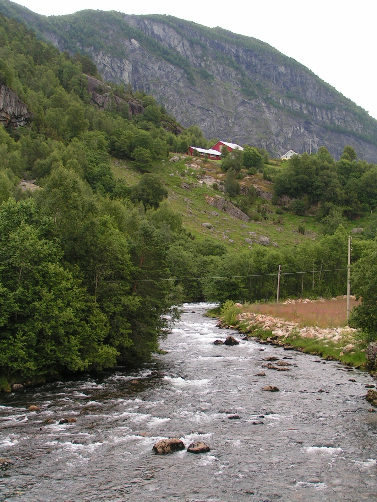 The river Gaula in Sogn og Fjordane county in Norway. Note that there are two rivers in Norway named Gaula. There is one in Sogn og Fjordane county and one in Sør-Trøndelag county. The picture is taken in Gaular municipality where the river enter Viksdalsvatnet. The local name of this place is Eldalsosen. The farm in the hill is called Espeset.